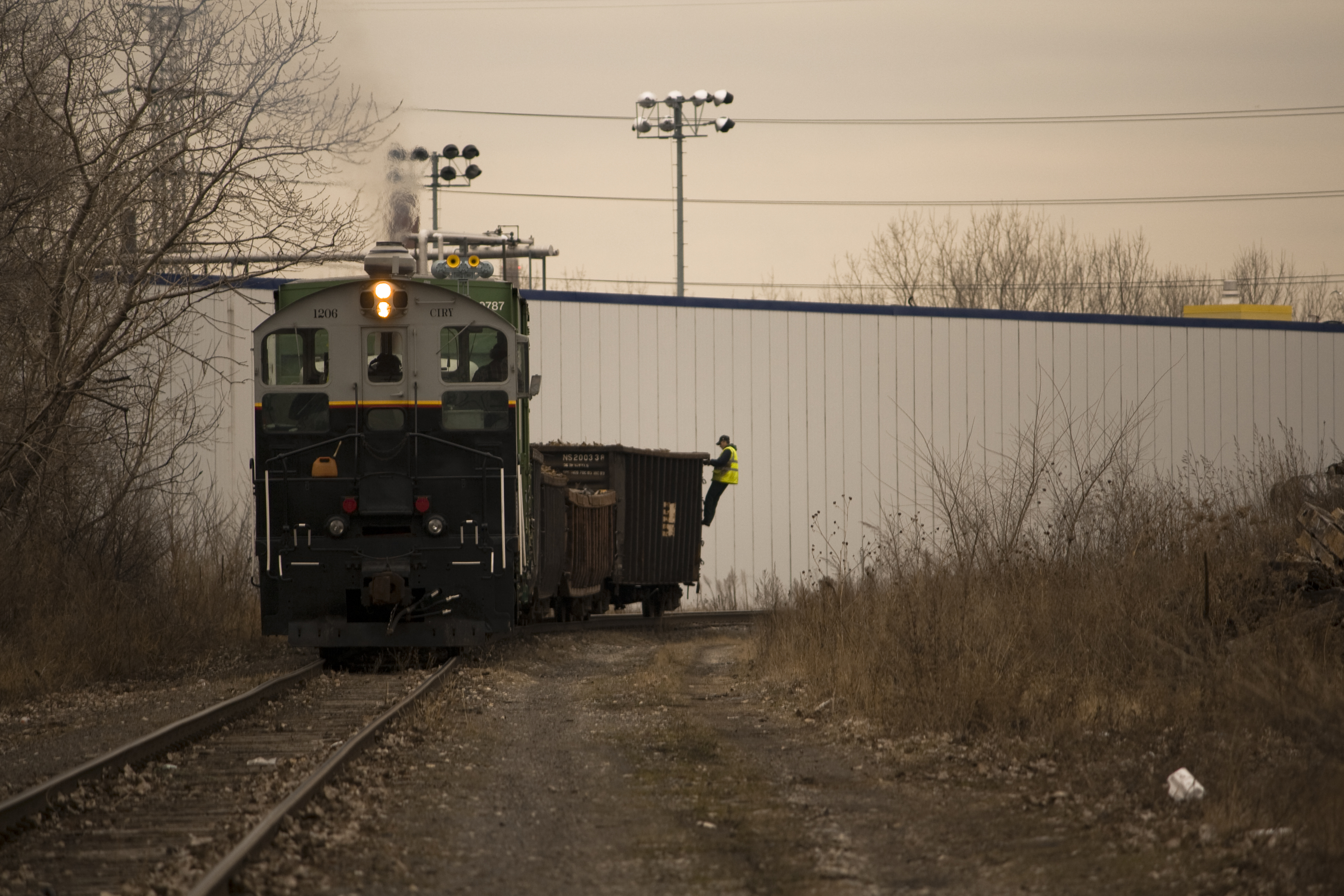 EMD SW9 diesel locomotive #1206 shoves 6 freight cars up the hill to the B&OCT near Blue island Avenue in 2010. A railroad conductor rides on the side of gondola car.